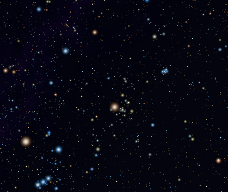 Image of Taurus